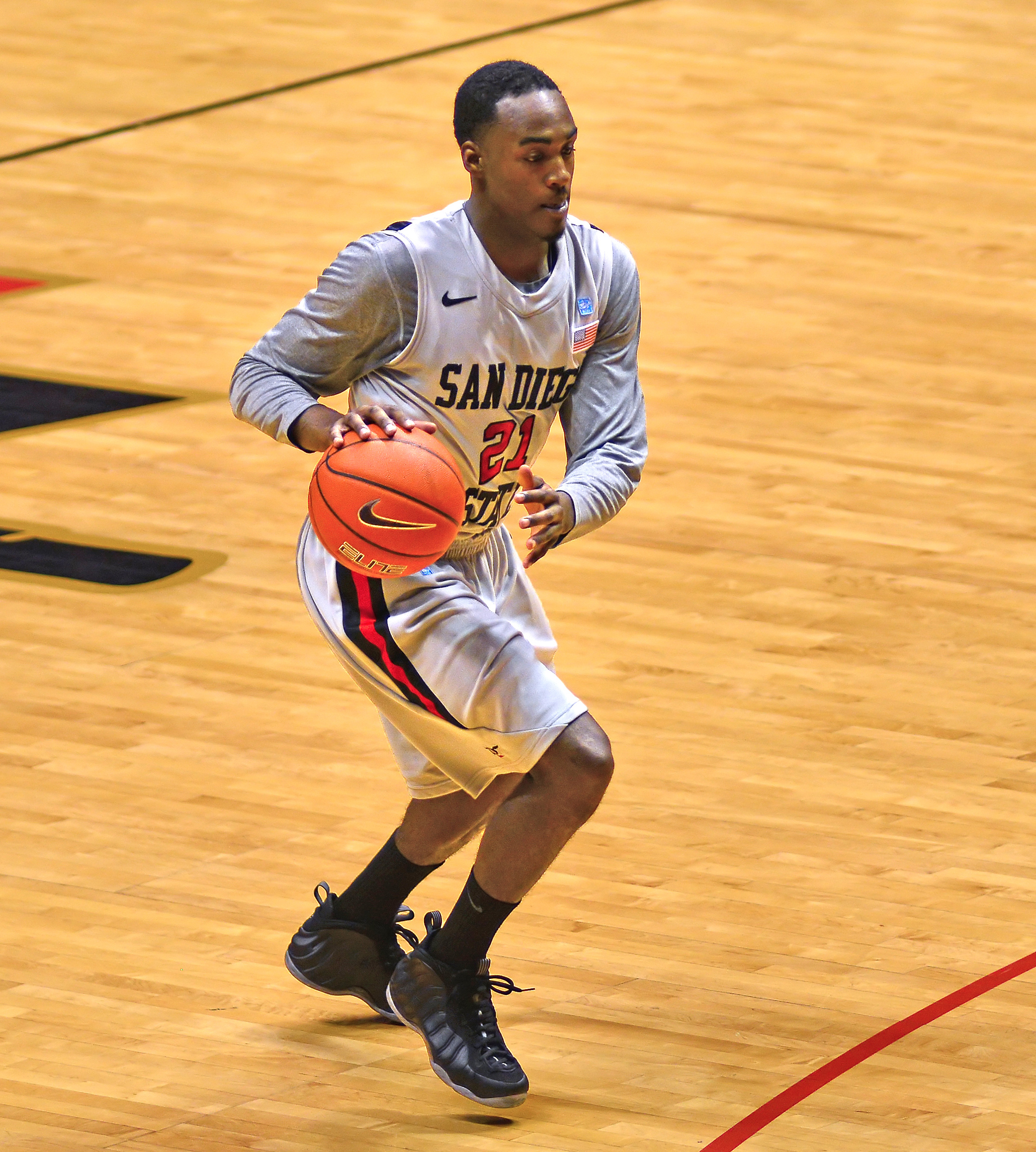 Jamaal Franklin, college, basketball player for the San Diego State Aztecs, Dec. 15, 2012